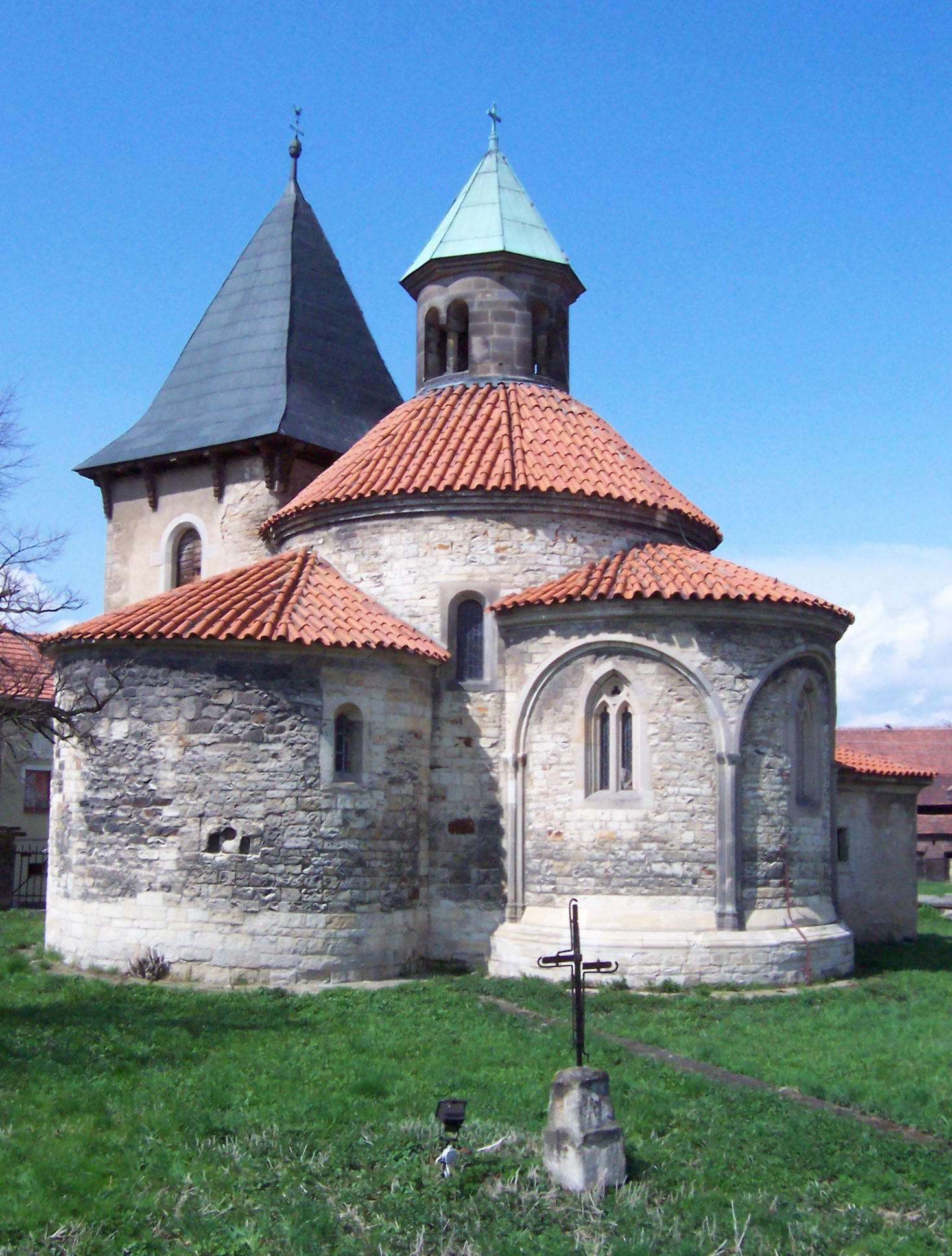 Village Holubice (Prague-West District, the Czech Republic). Rotunda church of the Nativity of the Virgin Mary.